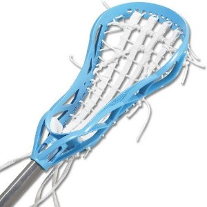 Women's lacrosse stick head